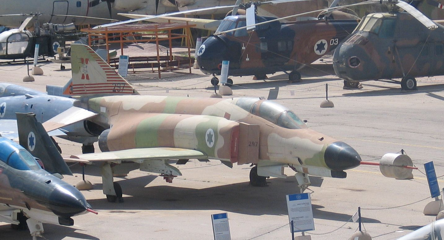 Description: F-4E Phantom II at Muzeyon Heyl ha-Avir, Hatzerim airbase, Israel. 2006. Source: Photo by me, User:Bukvoed.